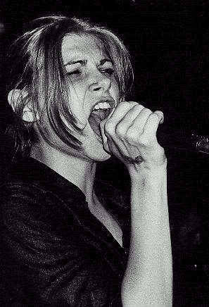 Fitzpatrick performing with band Eve's Plum in 1997.